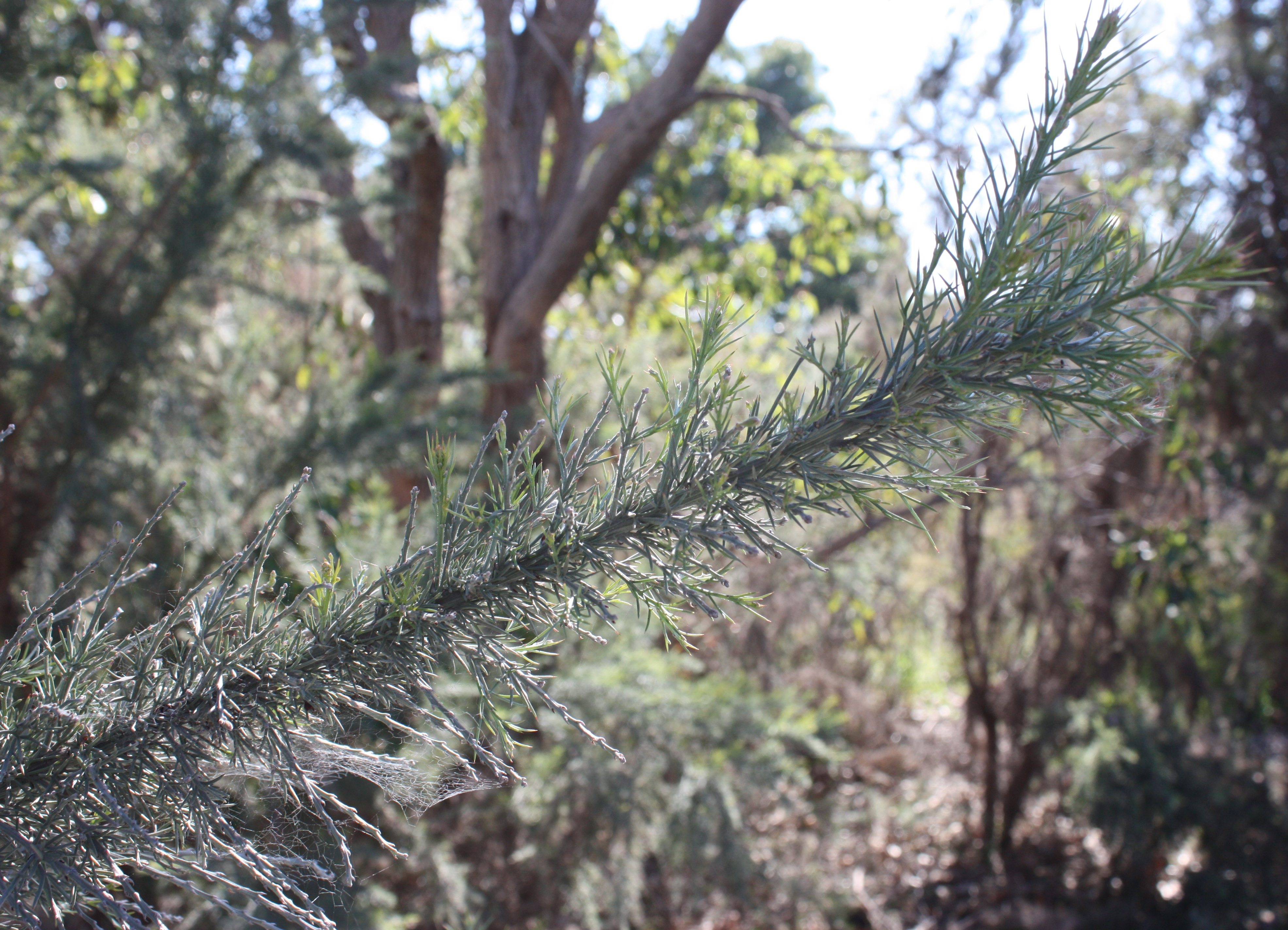 Jacksonia furcellata foliage. Photo taken at Wireless Hill Park, Perth, Western Australia